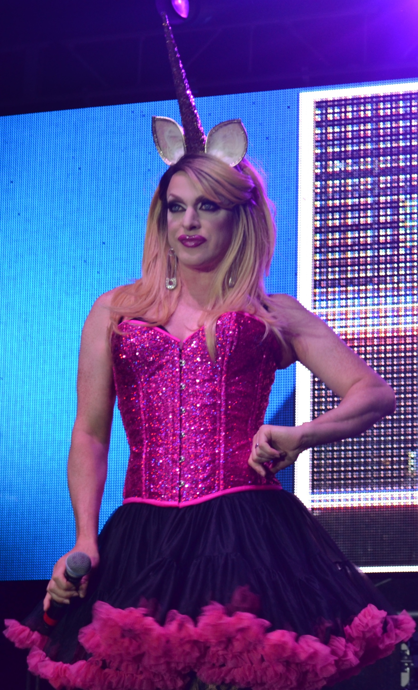 Pandora Boxx performing at the Gay Games Festival Village in Cleveland, OH in 2014